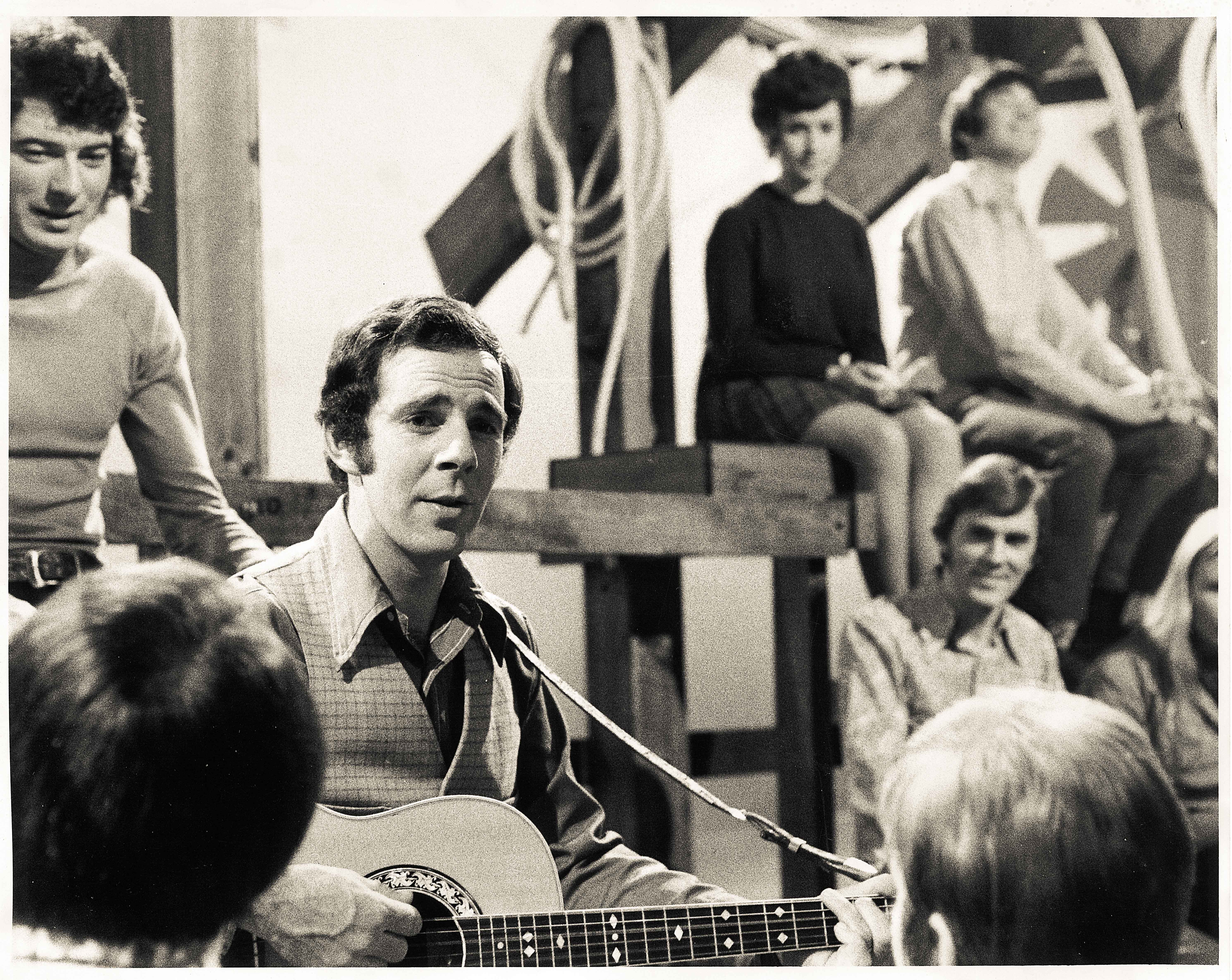 Born and bred in the South, John Denver Hore was Otago's first home grown Country music superstar. He rose to prominence through the power of reality television, getting his break on the show 'Have A Shot!' Recording under John Hore, John Denver Hore, John Hore Grenell, and later John Grenell, his unprecedented and enduring popularity helped to popularise country music in New Zealand. He sold records in Australia and the USA, appearing on the legendary Grand Ole Opry and once held the top 5 places on Invercargill radio station 4ZA’s Top 10 chart. Pictured here in the early 1970s, these images of John Grenell come from the Television New Zealand Dunedin Photographic Collection. [AAAA 21431 D569/9f (R1521863)] For further enquiries Material From Archives New Zealand